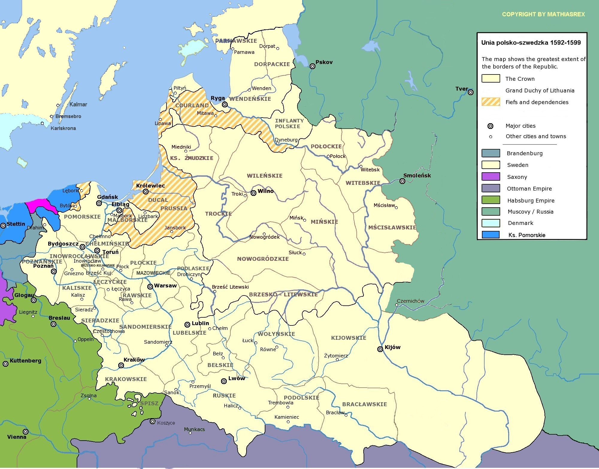 Polish-Swedish Union 1592-1599 A modified copy of Image:Rzeczpospolita voivodships.png by Halibutt